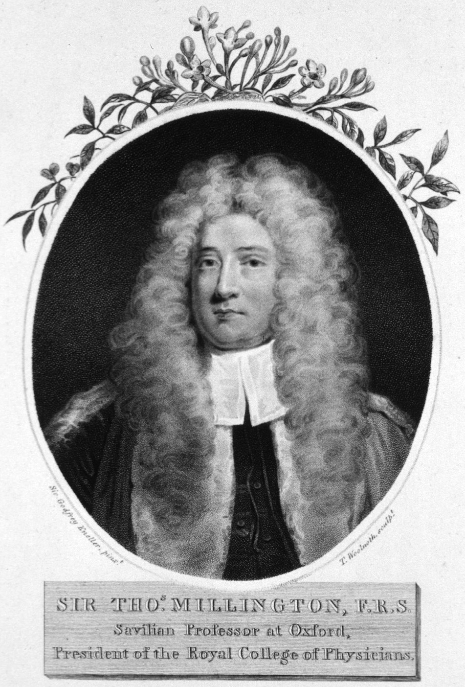 Sir Thomas Millington by Thomas Woolnoth, published by Robert John Thornton, after Sir Godfrey Kneller, Bt, stipple engraving and etching, published 1 March 1807, 18 3/4 in. x 12 7/8 in. (475 mm x 328 mm) paper sizeacquired Unknown source, 1964NPG D34353